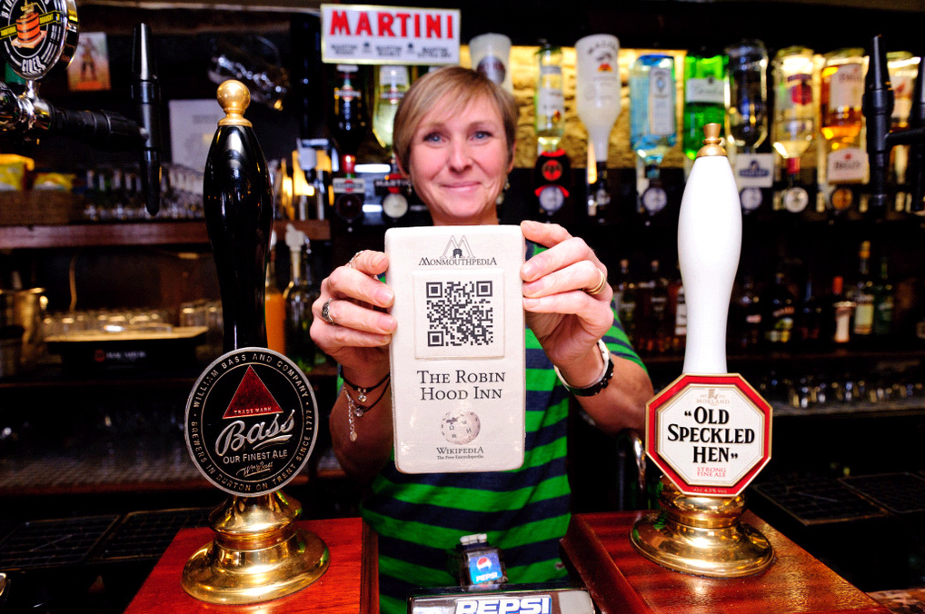 Monmouthpedia QRpedia code plaque for The Robin Hood Inn